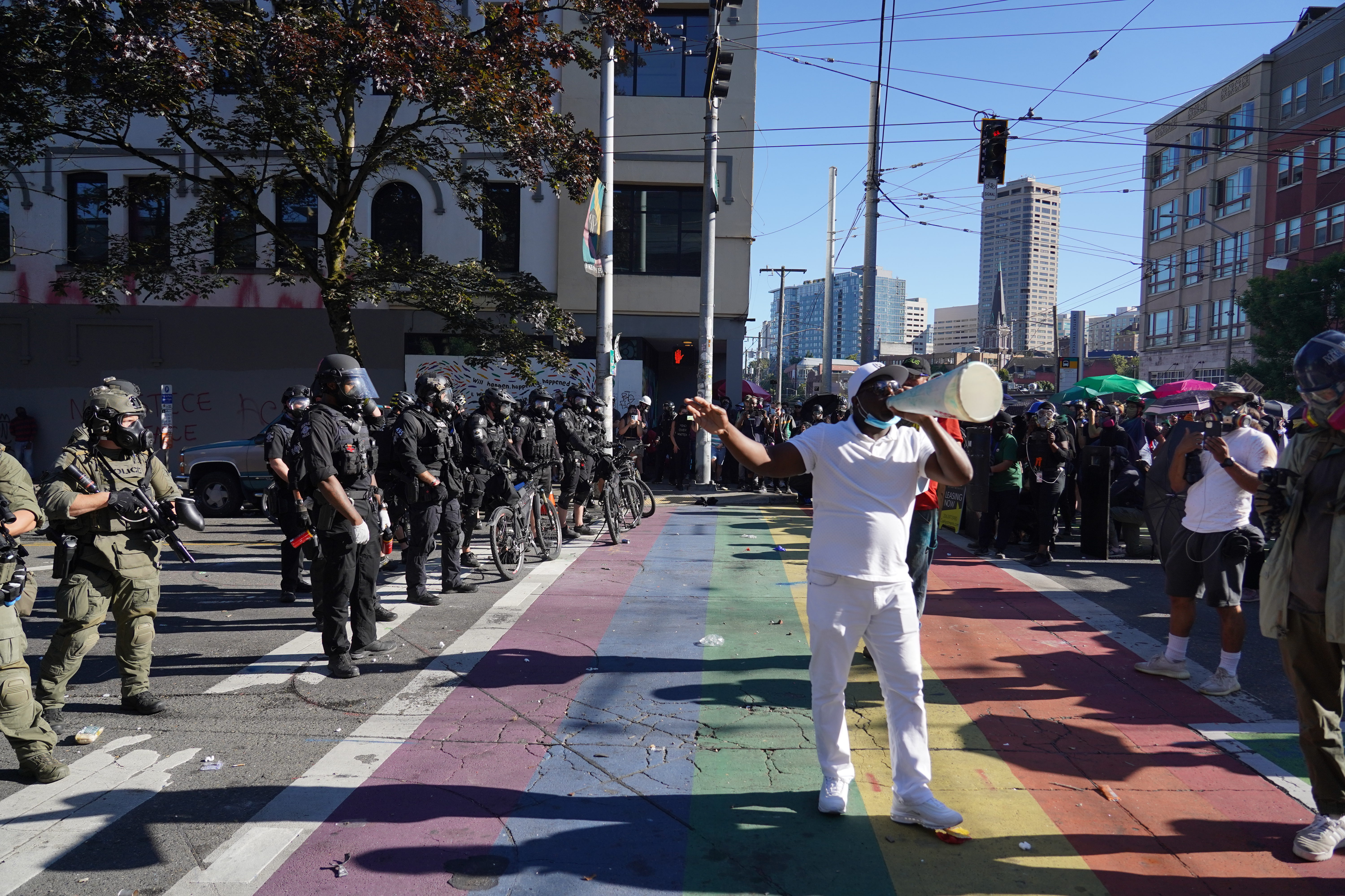 Standoff between SPD and Protestors